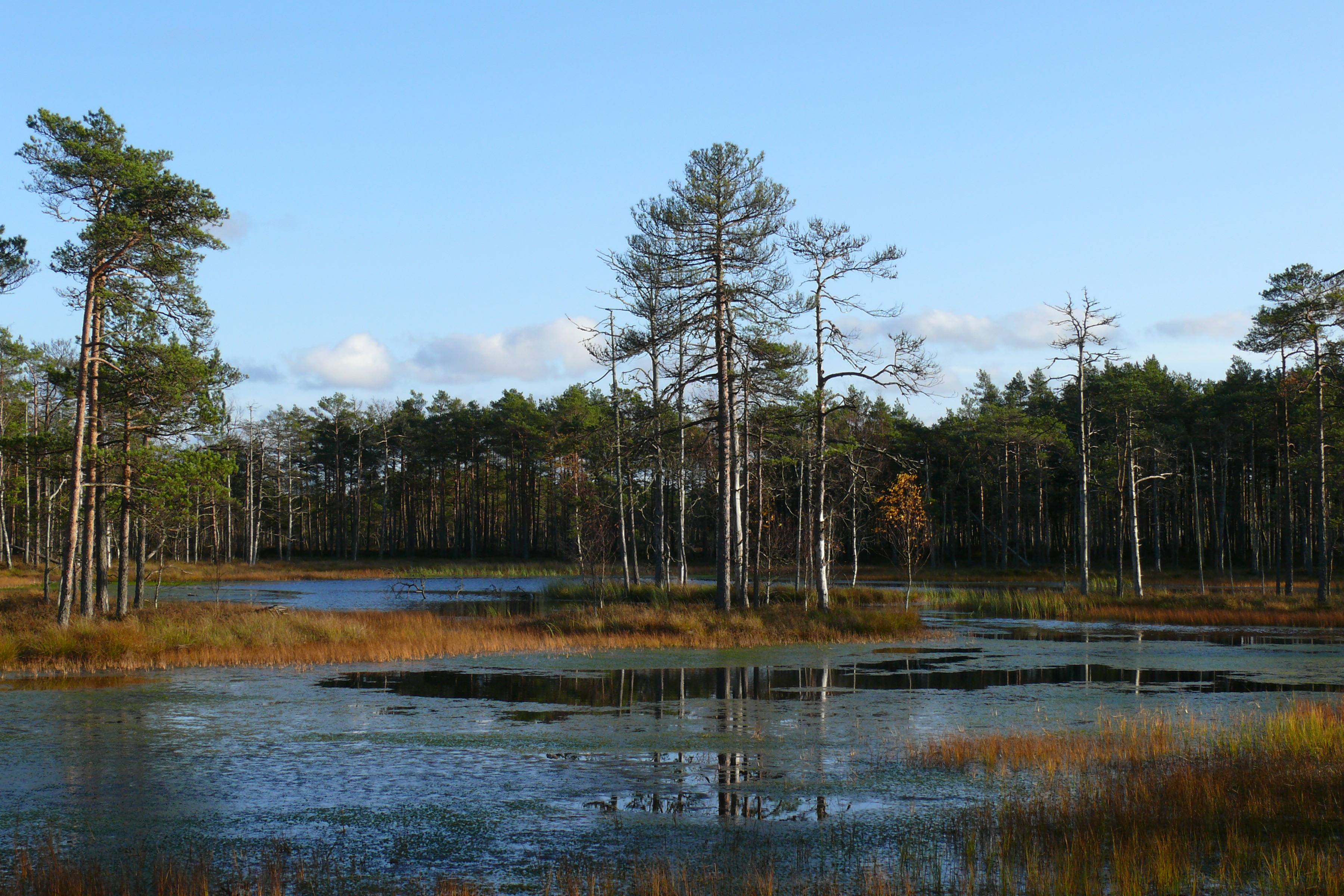 Lake in Väätsa Bog.